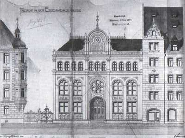 Architect drawing of the orthodox synagogue of nurnberg. Architect: Ochsenmayer.